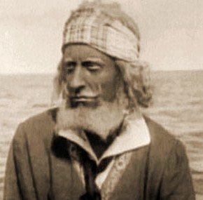 Allen Holubar as Captain Nemo in 20,000 Leagues Under the Sea - cropped screenshot